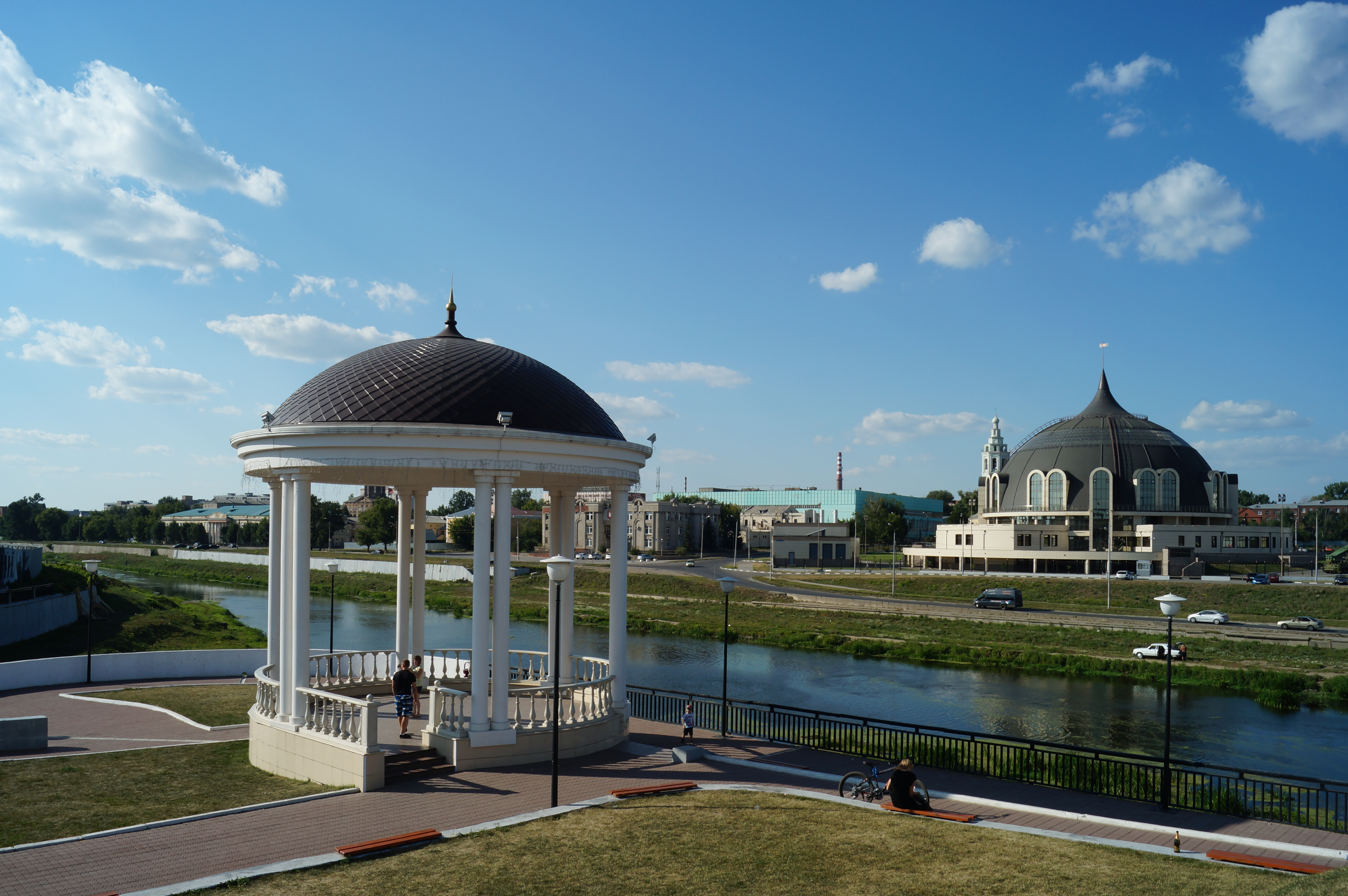 Tula State Museum of Weapons